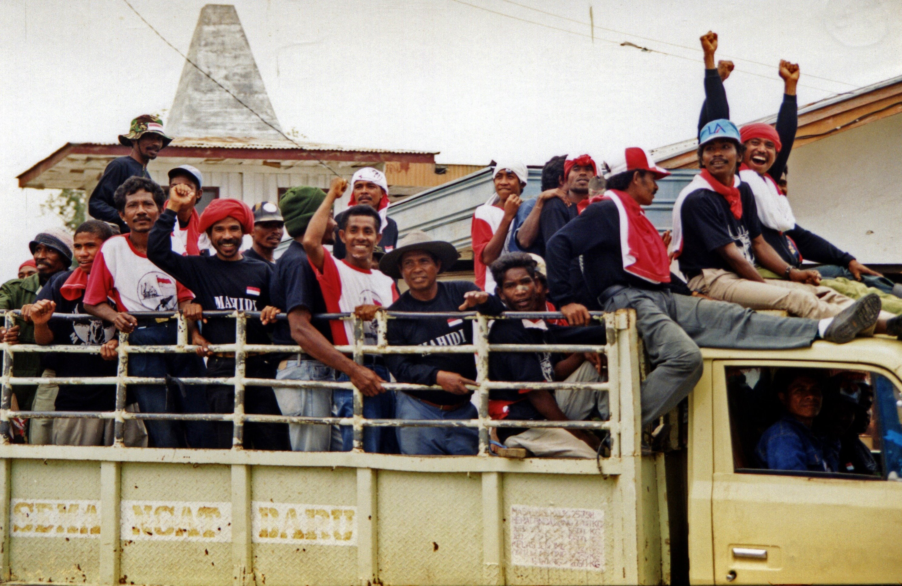 Campaign of Mahidi Militia in East Timor 1999